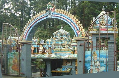 Modification for perspective and saturation of :Image:Hanuman20.jpg, released under continuation of GFDL license.